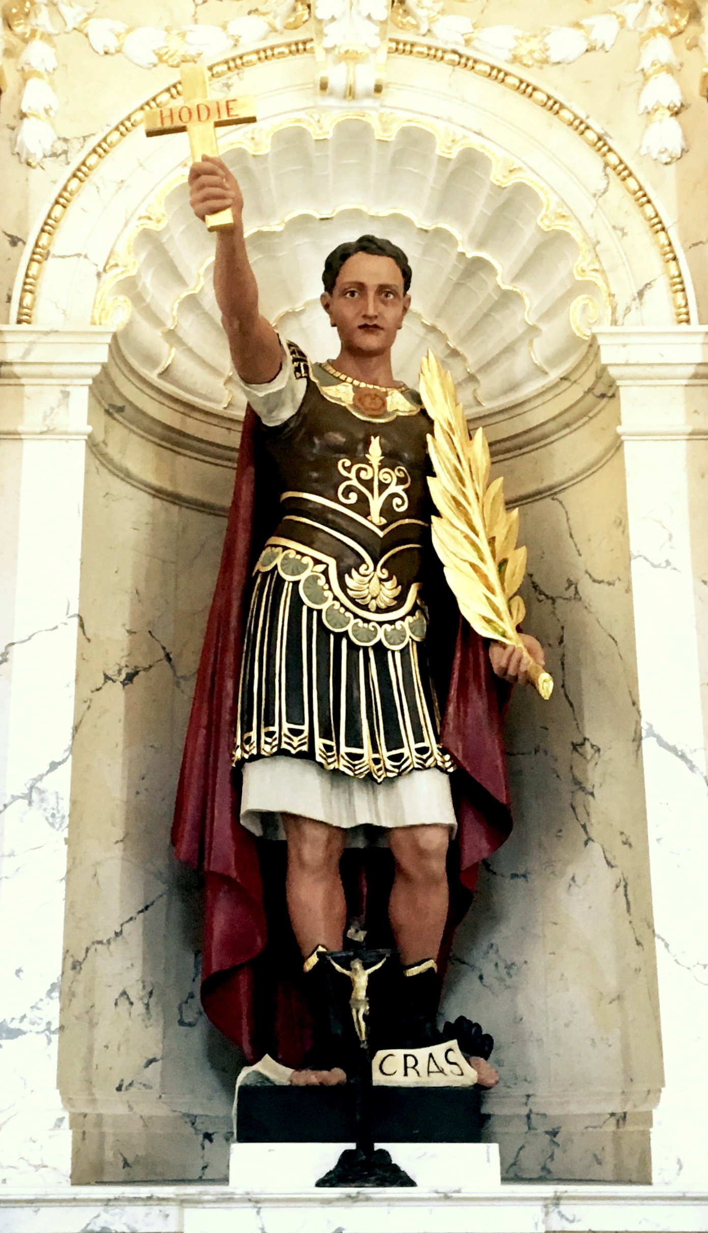 The statue of St. Expeditus from the Holy Saviour Church in Warsaw